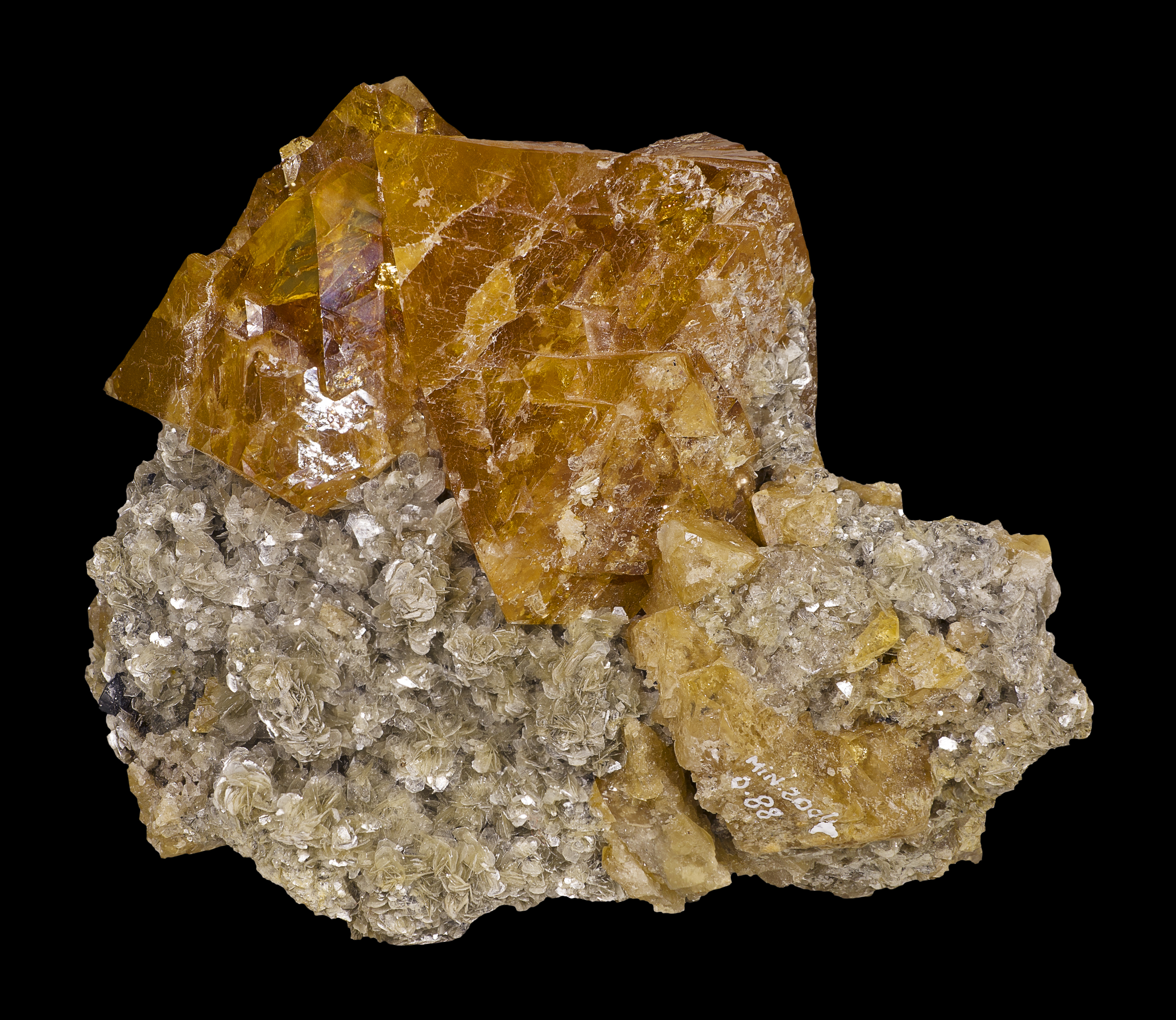 Muscovite, Scheelite Locality: Mianyang Mine, Mianyang, Mianyang Prefecture, Sichuan Province, China Size: 12.7 x 9.7 x 10.6 cm 1620 g cm